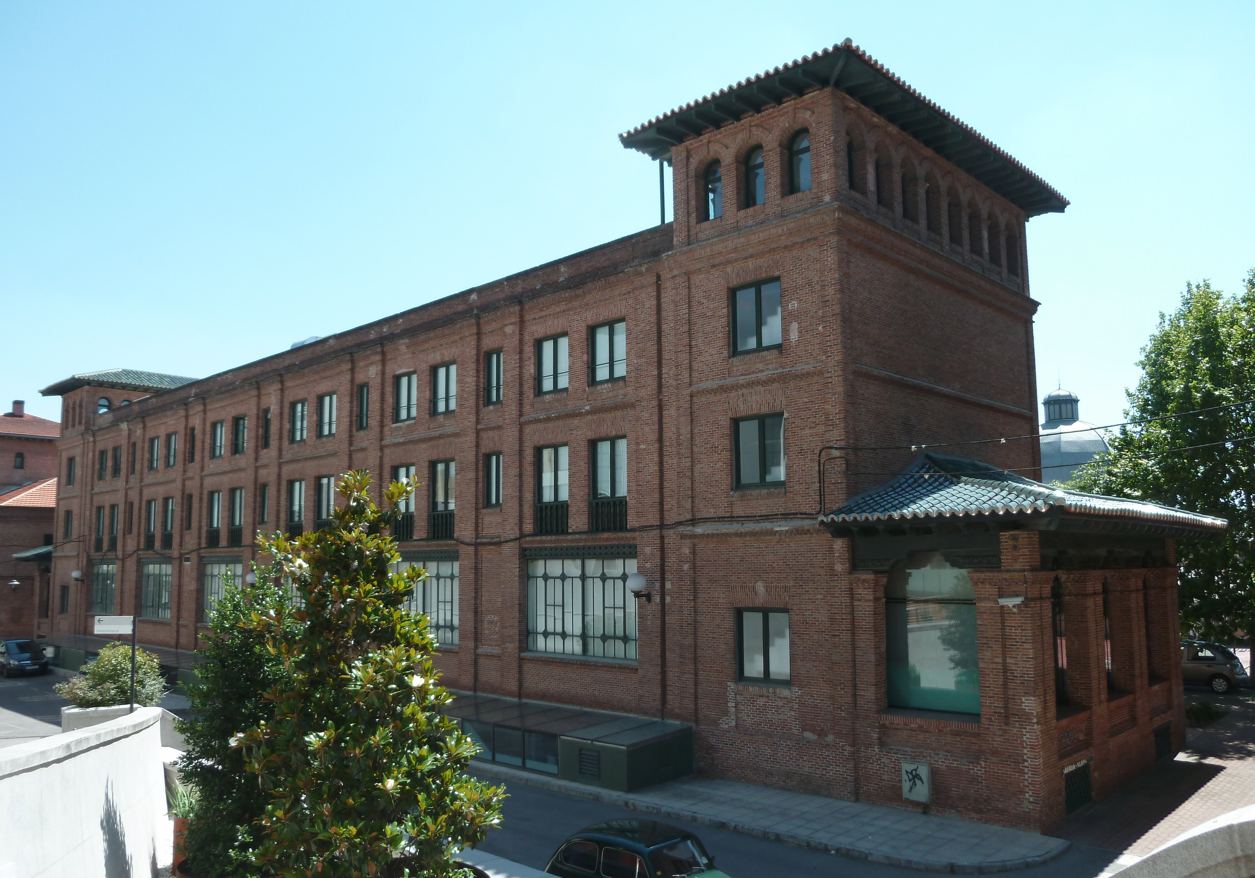 The Pabellón Transatlántico (literally "Transatlantic Building") of Residencia de Estudiantes in Madrid (Spain).